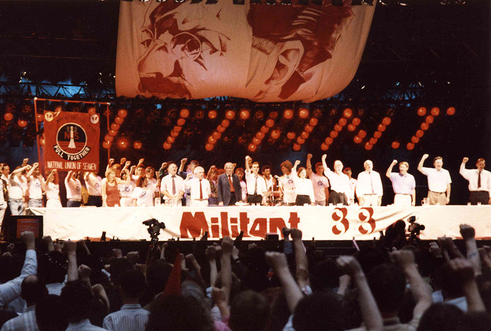 1988 Militant rally